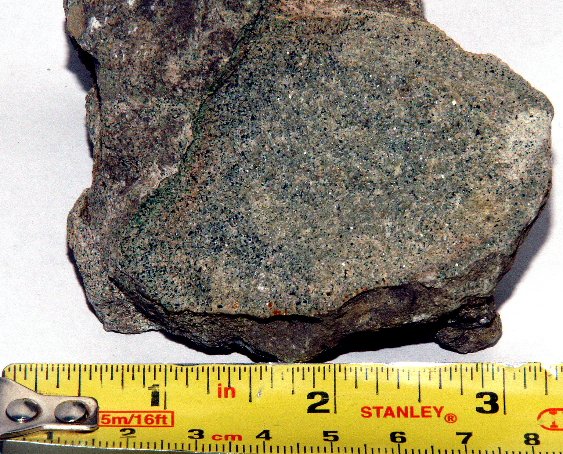 Sample of Greensand, from the Cretaceous near Swanage, Dorset. A weathered chunk of this moderately hard sandstone has been split to show the colour when fresh. Grains of glauconite up to 0.5mm in size can be seen.